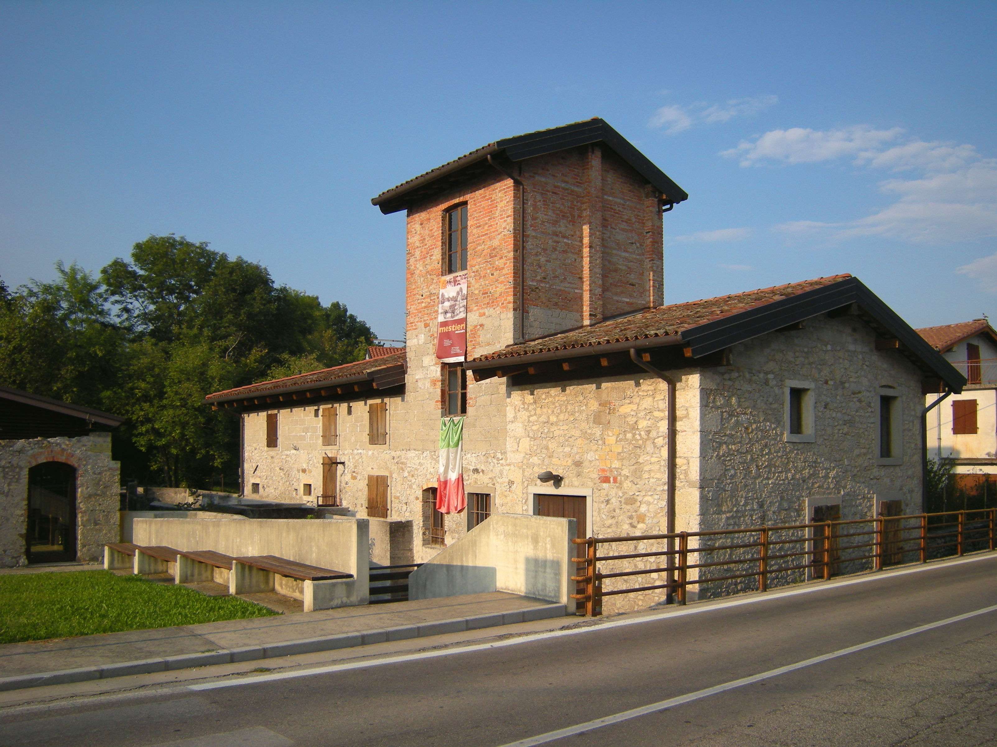 Borgo Ampiano mill (municipality of Pinzano al Tagliamento)